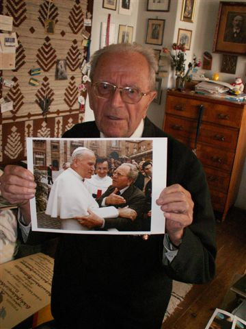 Stefan Wesołowski (b. August 16, 1908 in Kamienica, Poland), Polish scientsist, professor dr med., surgeon urologist, co-founder of Polish urology, founder member of Polish Urological Society and the European Association of Urology.